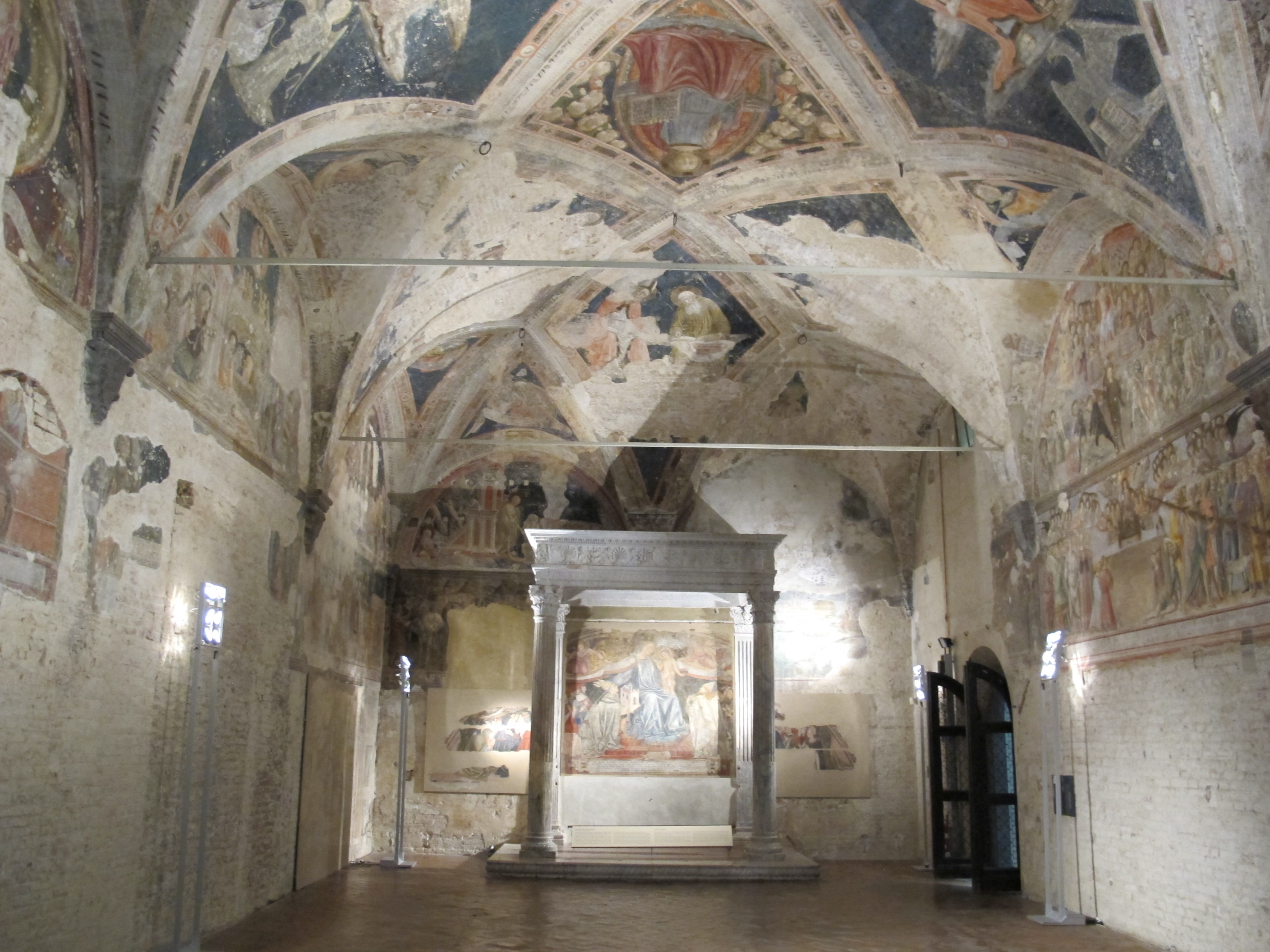 Santa Maria della Scala Hospital (Siena)